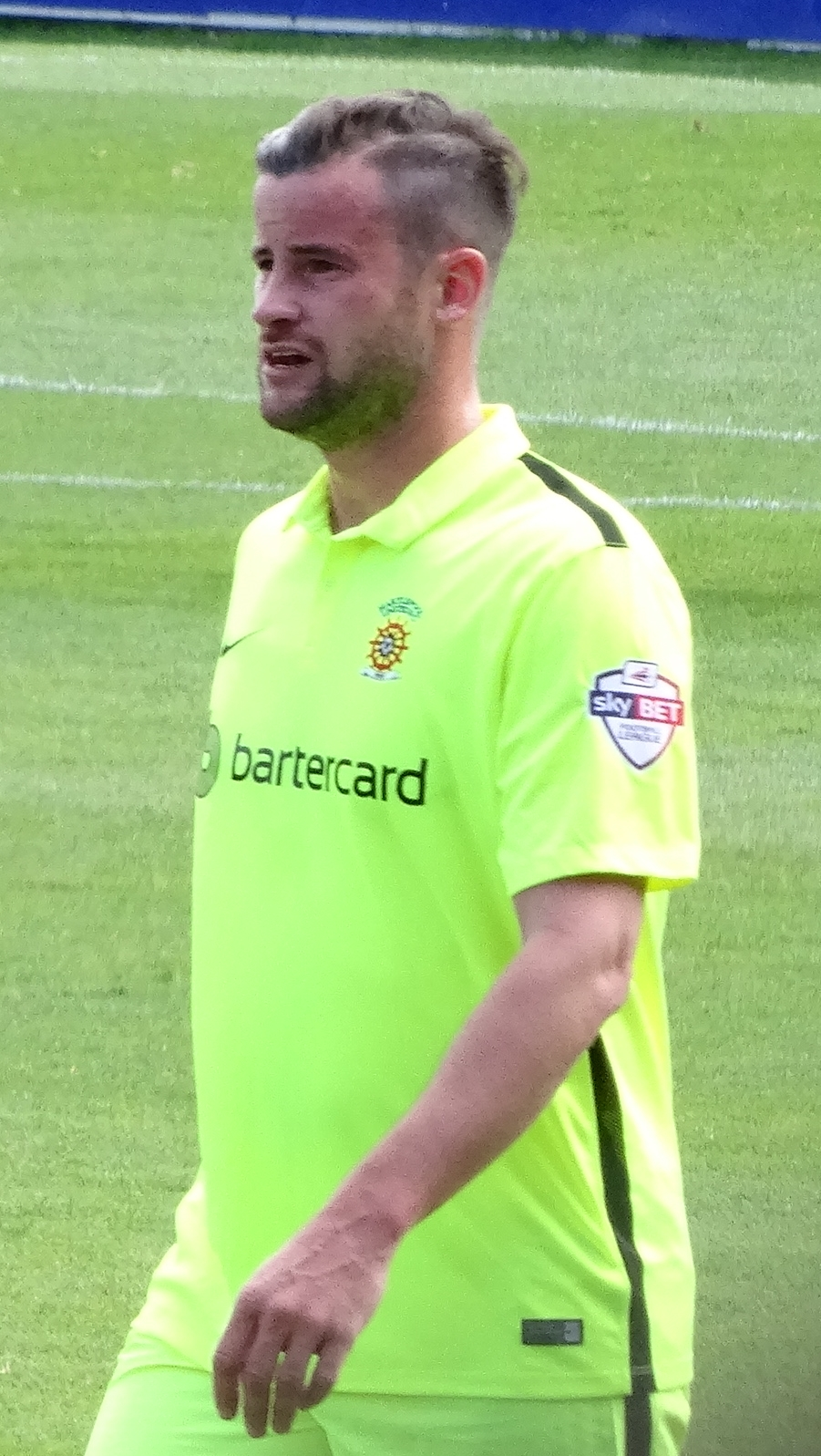 Matthew Bates playing for Hartlepool United against York City at Bootham Crescent, York on 15 August 2015